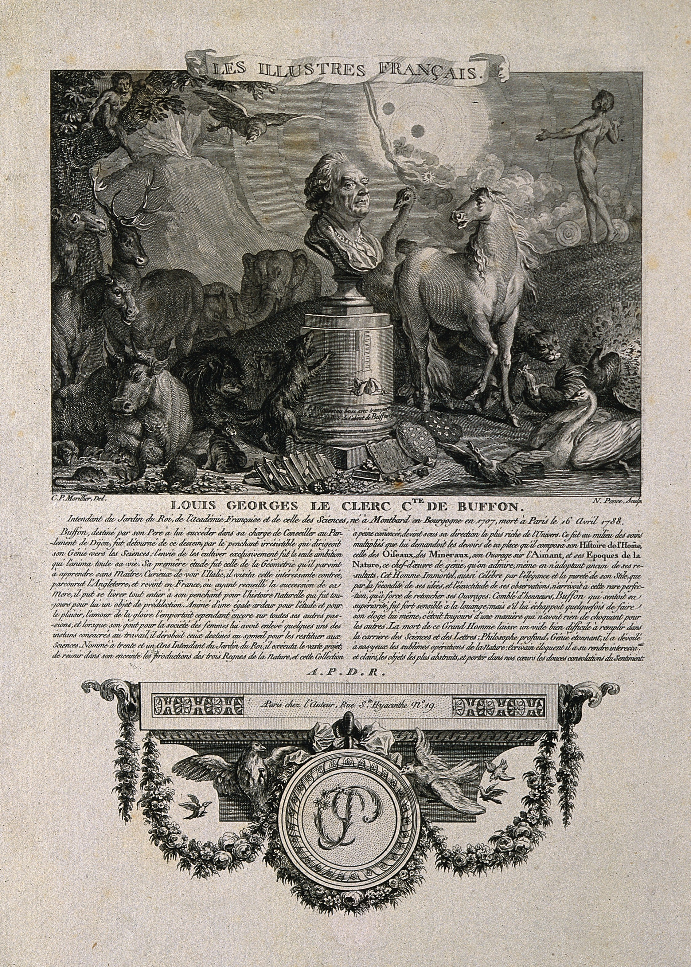 Georges Louis Leclerc, Comte de Buffon. Line engraving by N. Ponce after C. P. Marillier. Iconographic Collections Keywords: 1788; buffon, georges-louis leclerc,; engravings; portrait prints; Georges-Louis Leclerc Buffon